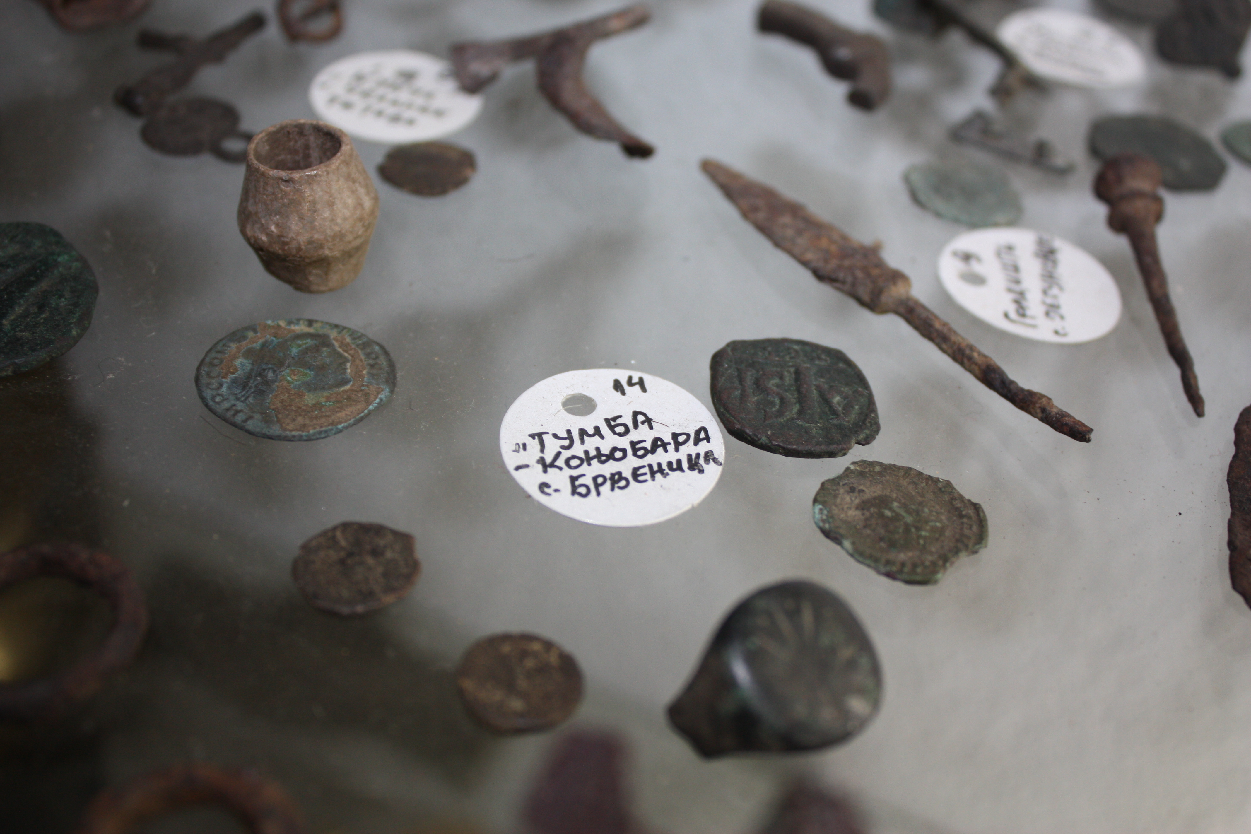 The World’s Smallest Ethnological Museum in Džepčište near Tetovo in Macedonia